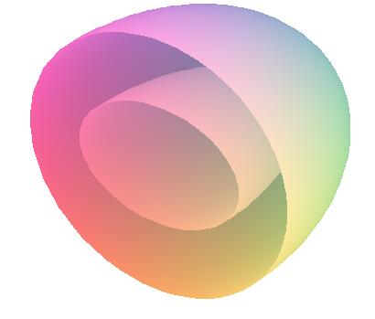 Two confocal ellipsoidal shells define the outer and inner boundary of a focaloid. Cut at yz-plane. Semiaxes a=1,b=1/2,c=1/3, lambda=0.4